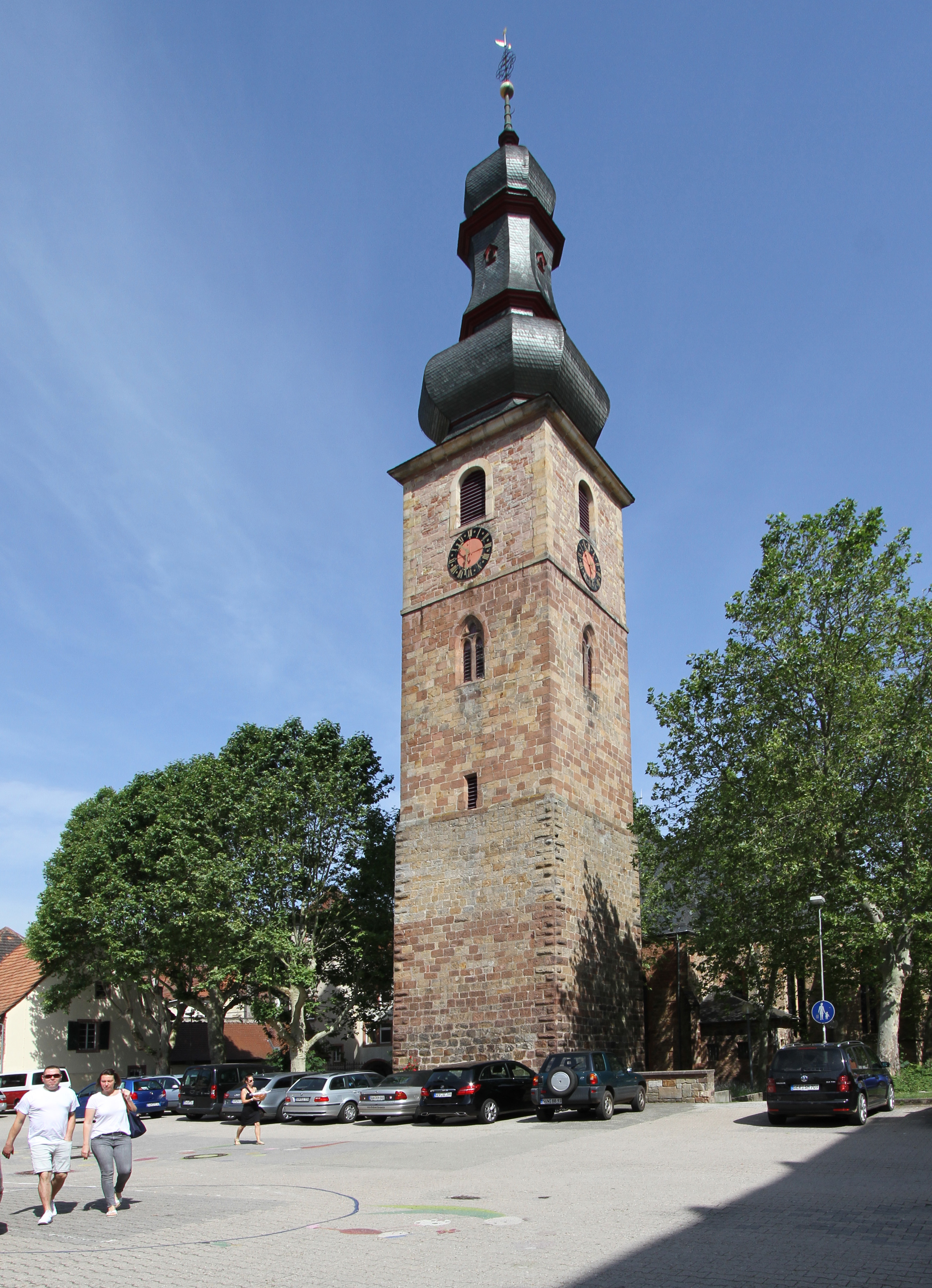 Market church in Bad Bergzabern